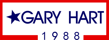 Gary Hart presidential campaign, 1988